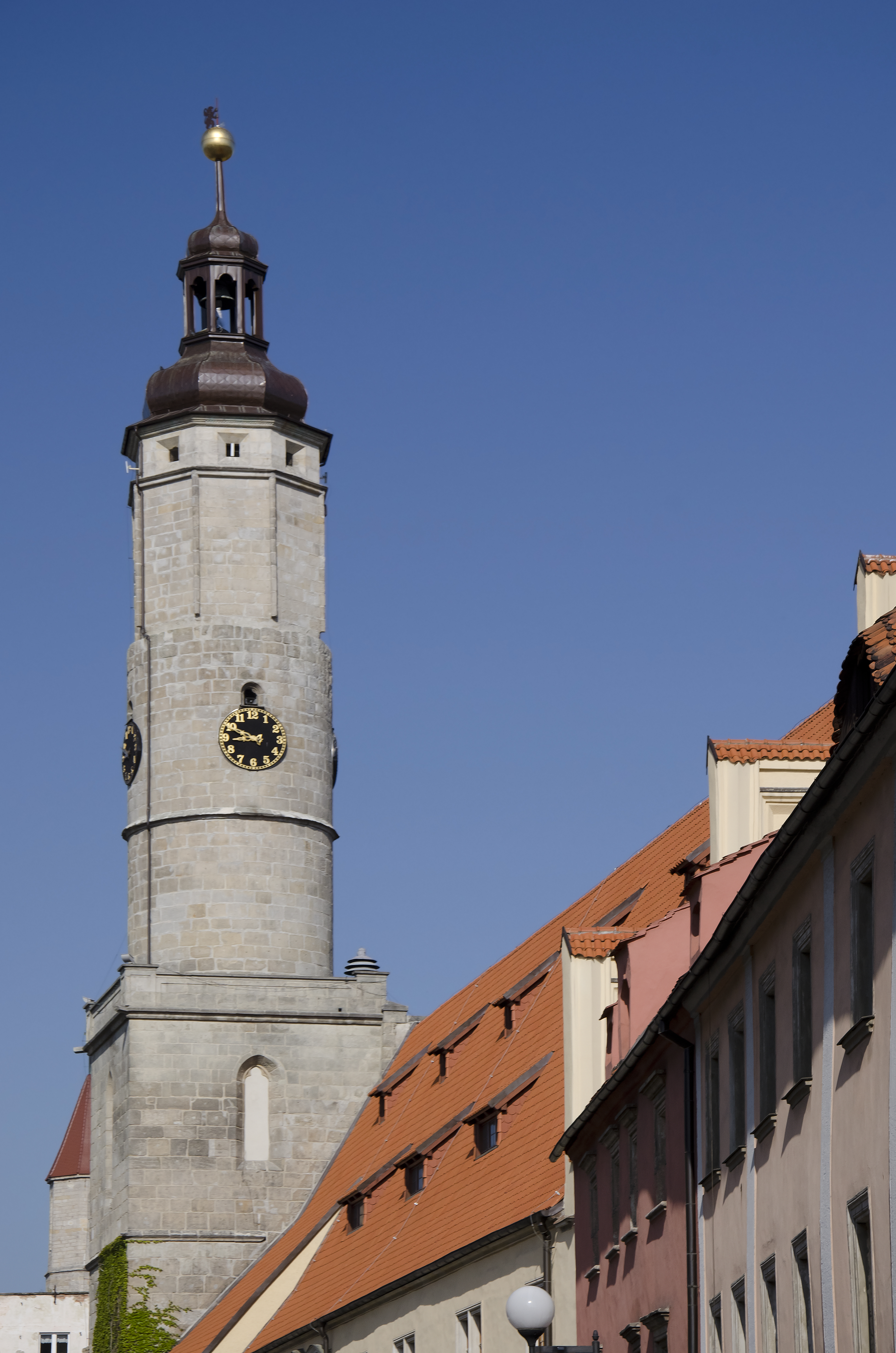 Town Hall. Lwówek Śląski. Poland.